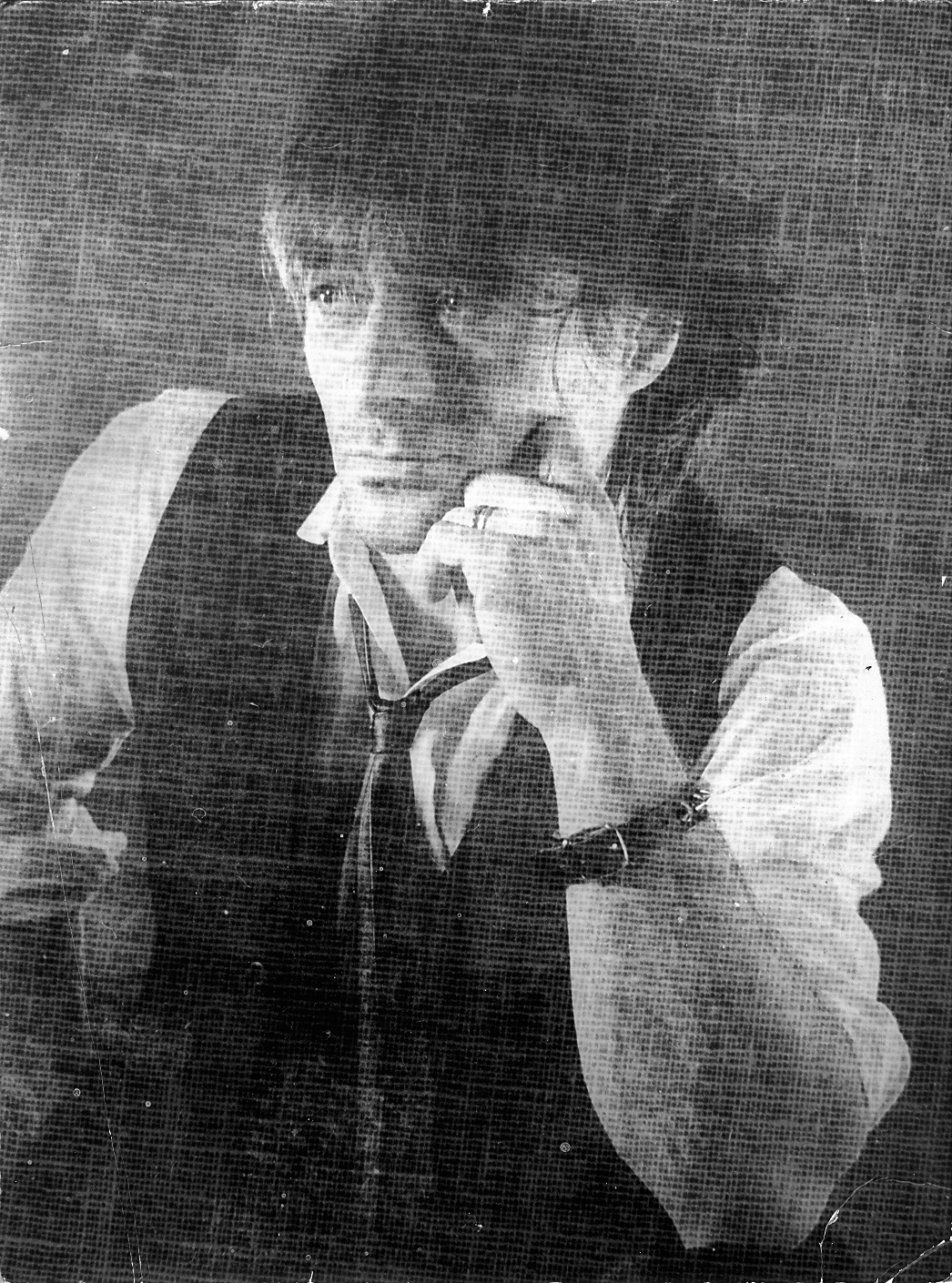 Dado Topić, portrait made in the early 80's